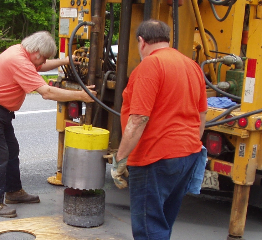 Truck mounted core drill with 14" barrel.